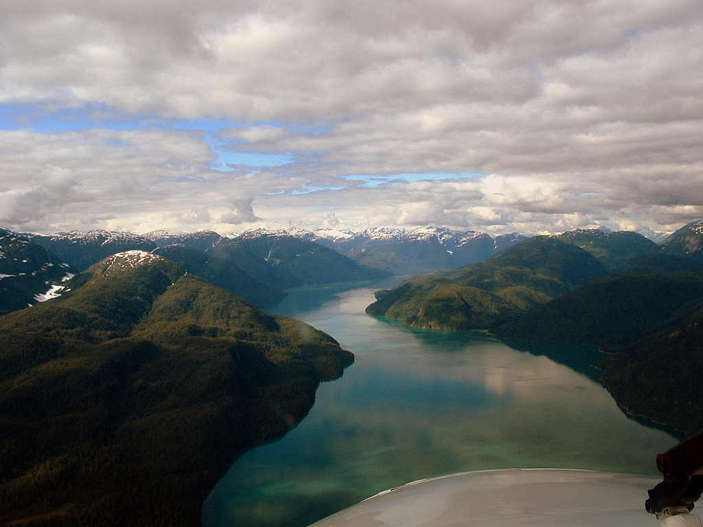 Headed into Stewart